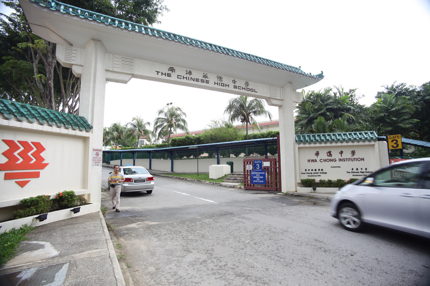 The entrance archway of The Chinese High School, now known as Hwa Chong Institution, with same logo on left side.Singapore.